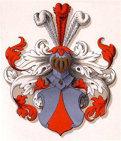 Coat of arms of the von der Kuhla family